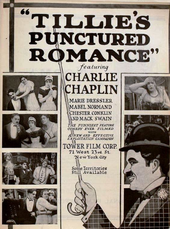 Ad for the 1920 re-release of the American film Tillie's Punctured Romance (1914) with Charlie Chaplin, Marie Dressler, and Mabel Normand, on page 4751 of the June 12, 1920 Motion Picture News.